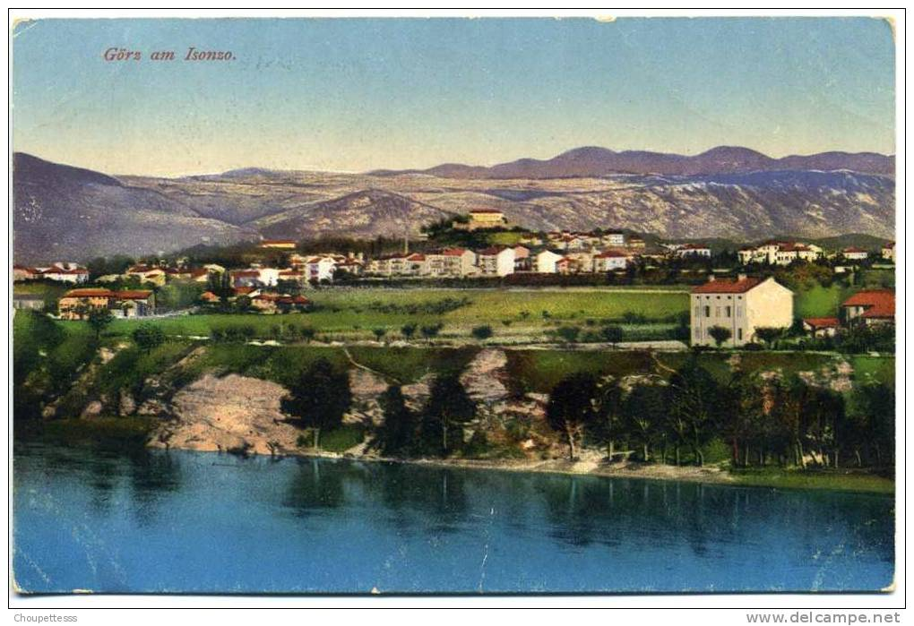 Goriza